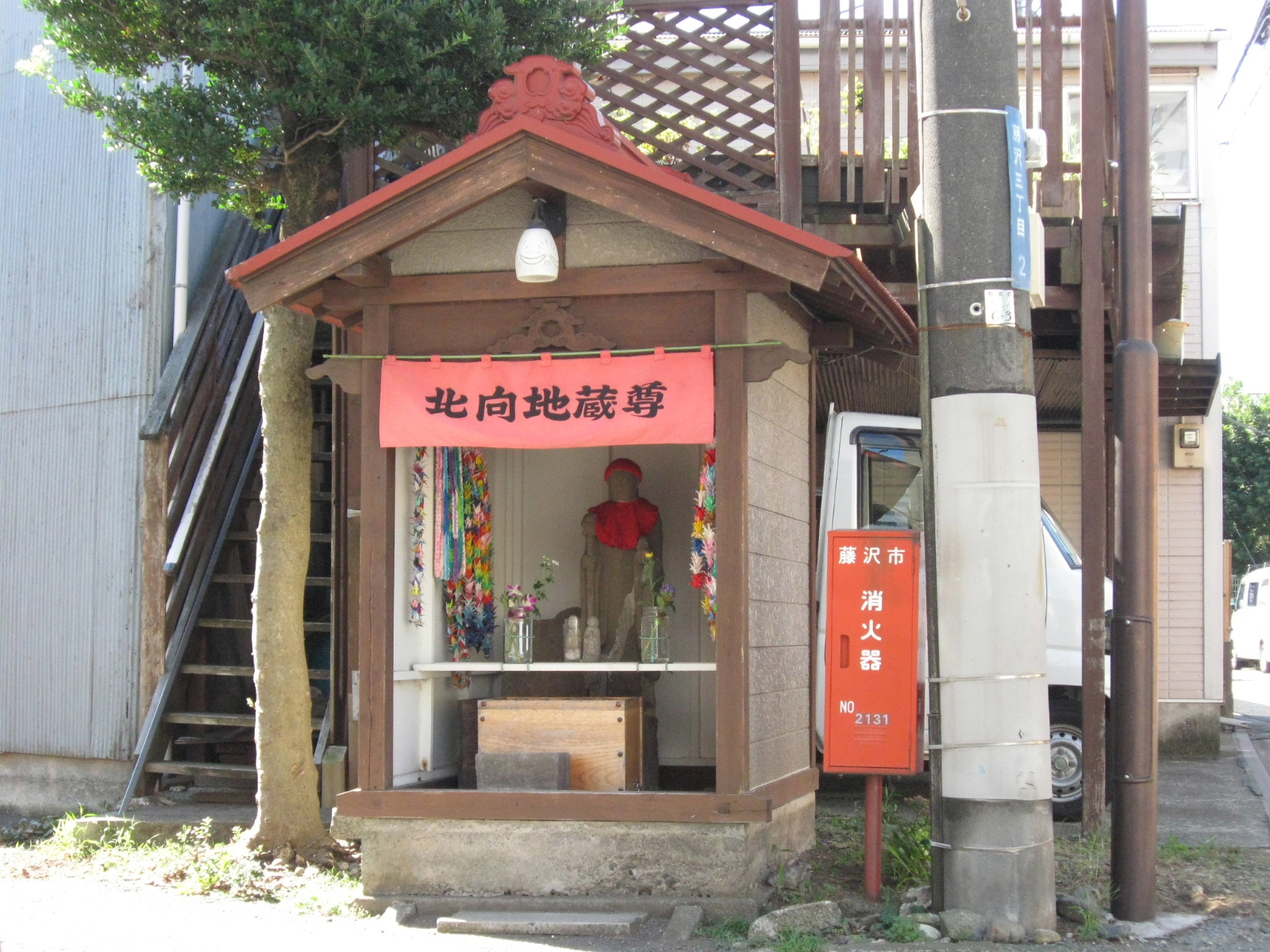 Kitamuki-jizō is a Statue of North-facing Ksitigarbha in Fujisawa City, Kanagawa Prefecture, Japan.